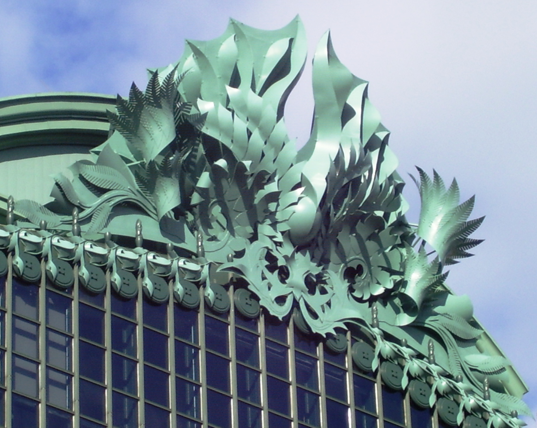 The Harold Washington Library Center of the Chicago Public Library at 400 South State Street in the Loop neighborhood of Chicago, Illinois was completed in 1991 and was designed by Hammond, Beeby and Babka (now Hammond Beeby Ruppert Ainge).